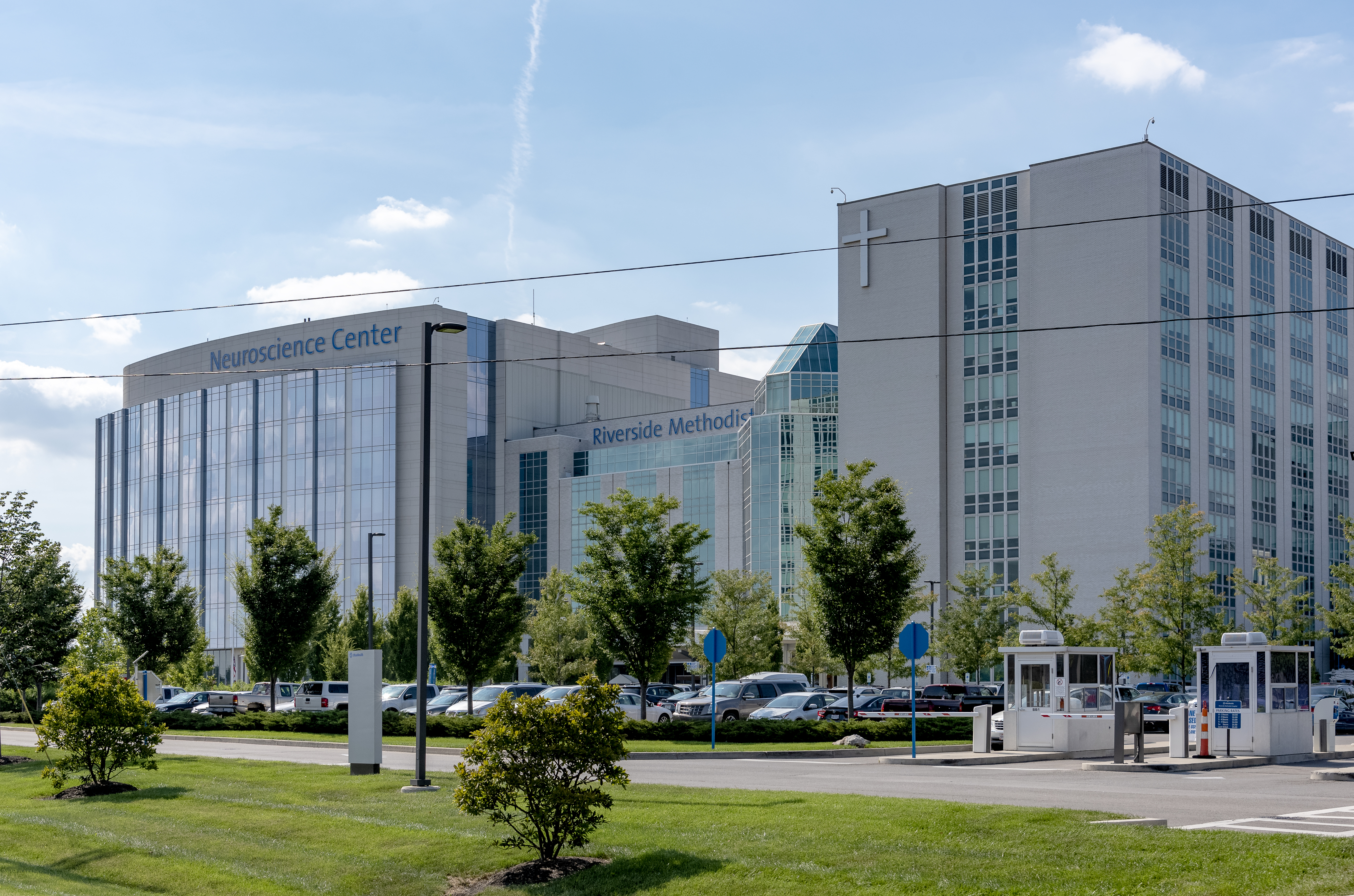 The front of Riverside Methodist Hospital viewed from the east.